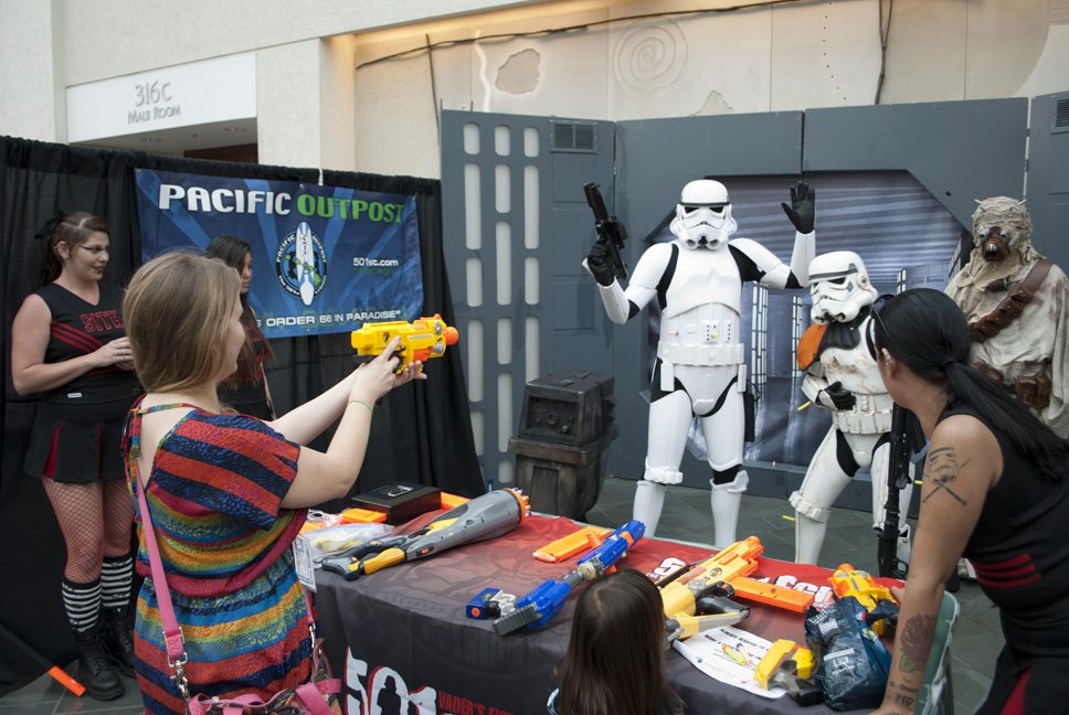 Troopers of the 501st Legion offer themselves to be blasted at with NERF guns (foam darts) for charity during Kawaii Kon.